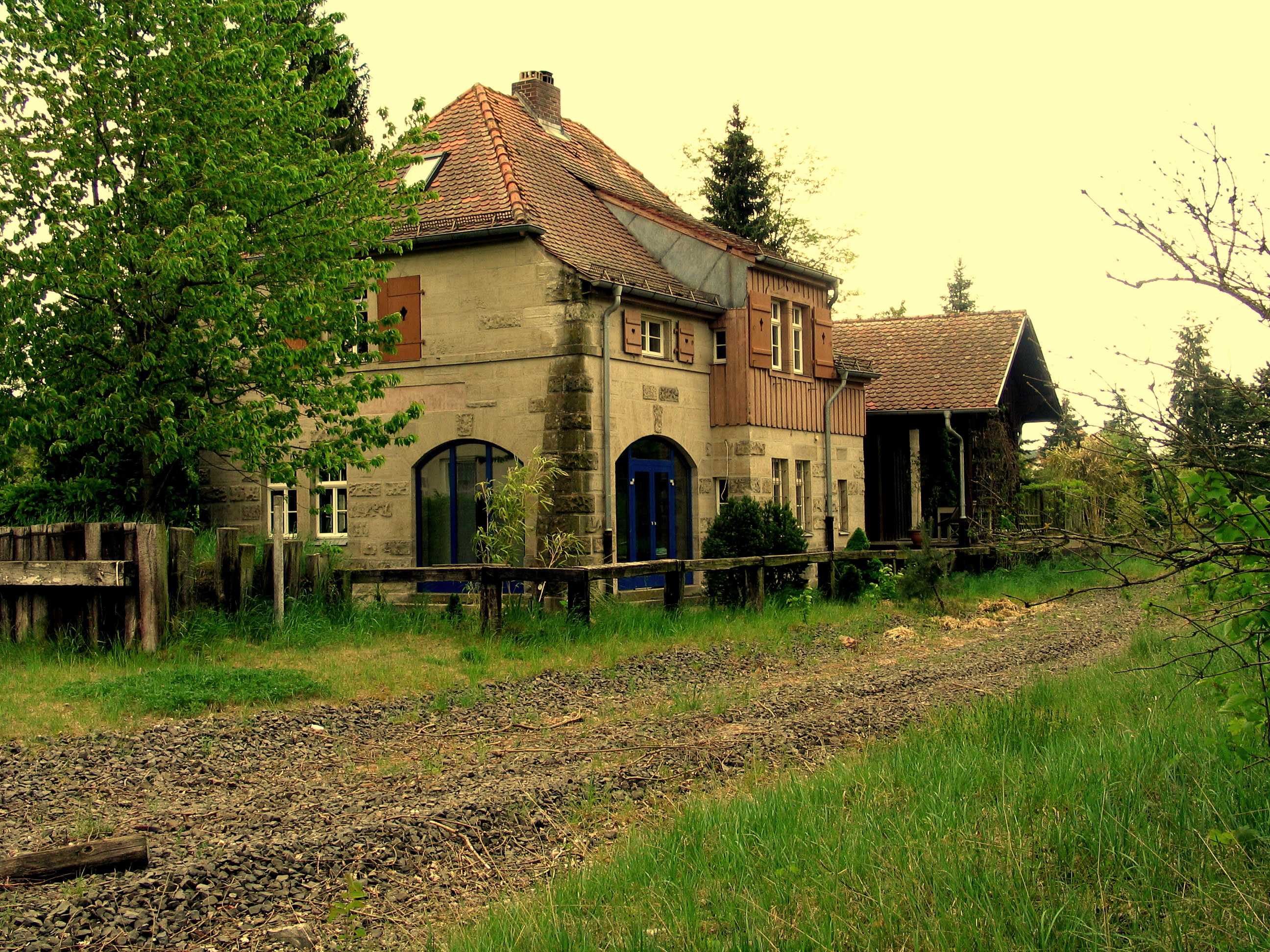 Obere Steigerwaldbahn: Former train station of Burgwindheim. The rails are ripped off now.